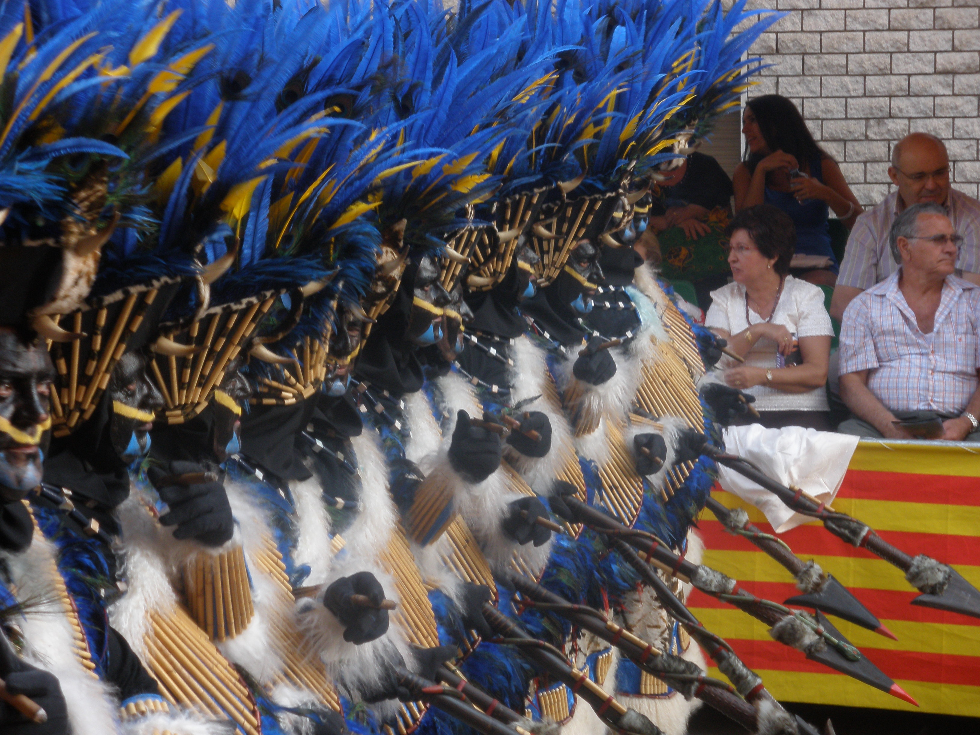 Filà de Moros en las fiestas de 2009 de Ibi